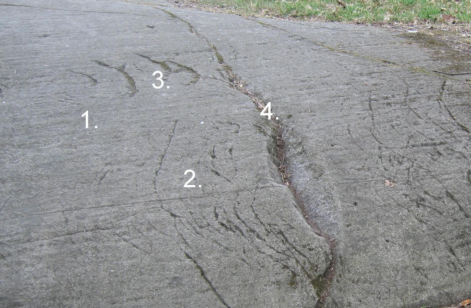 Glacial striations or glacial grooves